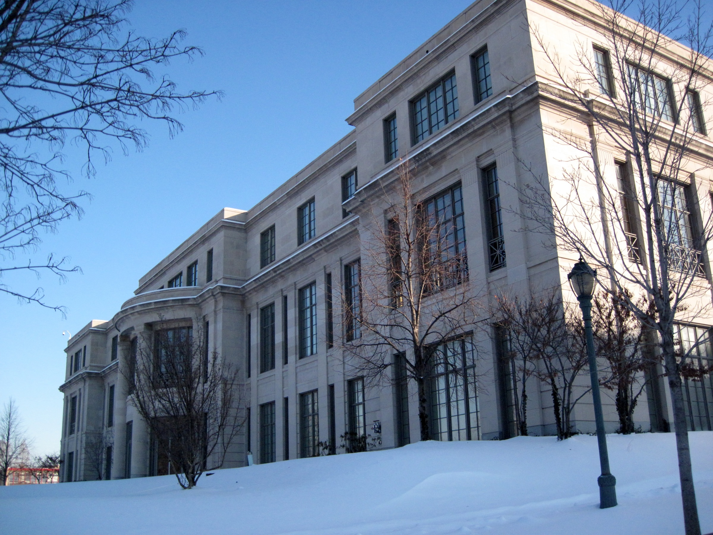 Kelvin Smith Library at Case Western Reserve University in Cleveland, Ohio